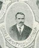 Portrait of IMARO member Deyan Dimitrov from Ohrid